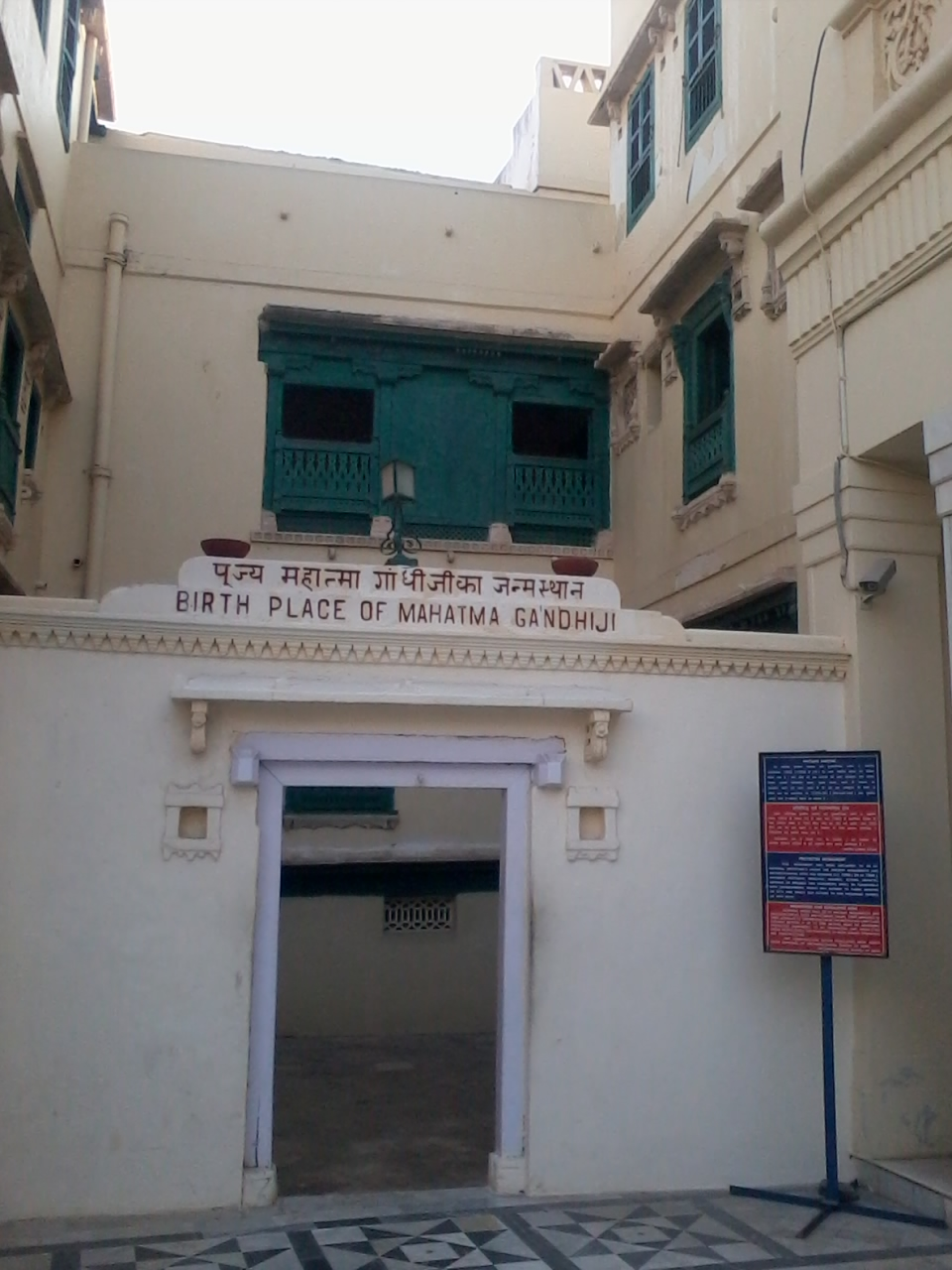 Birth Place of Gandhi